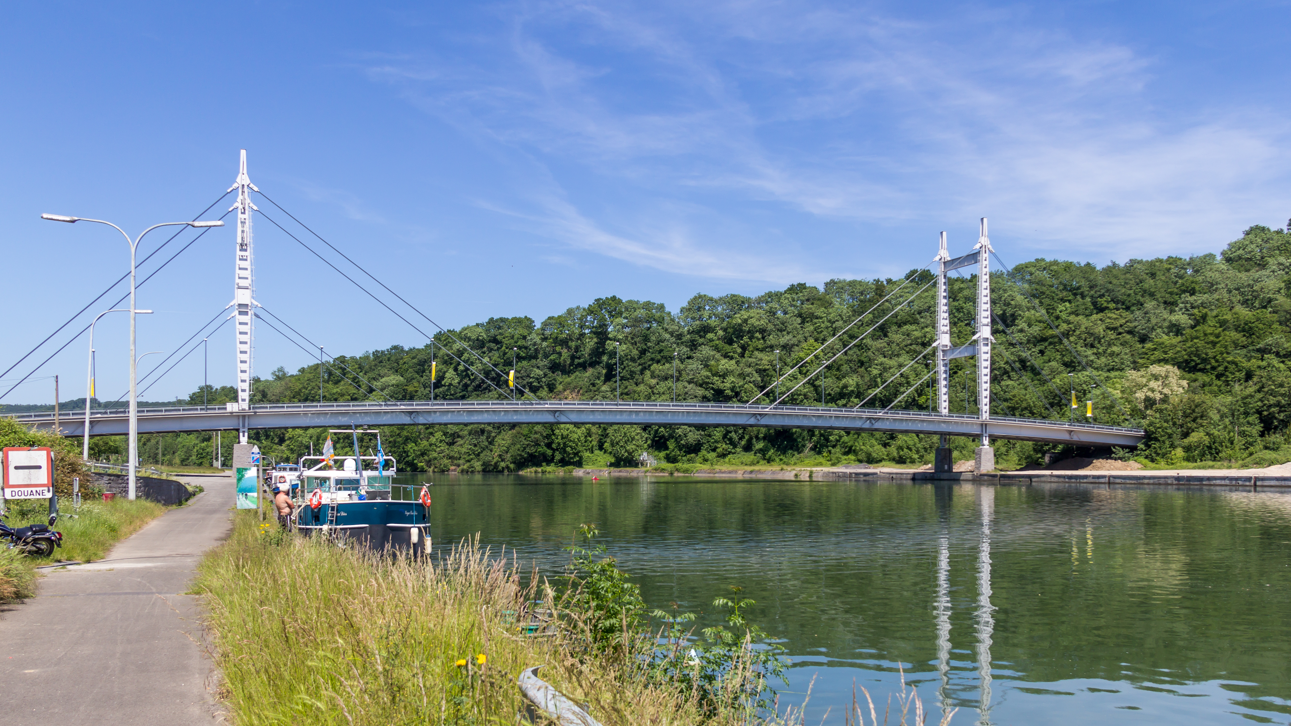 Bridge (N909) over the Meuse near Heer-Agimont